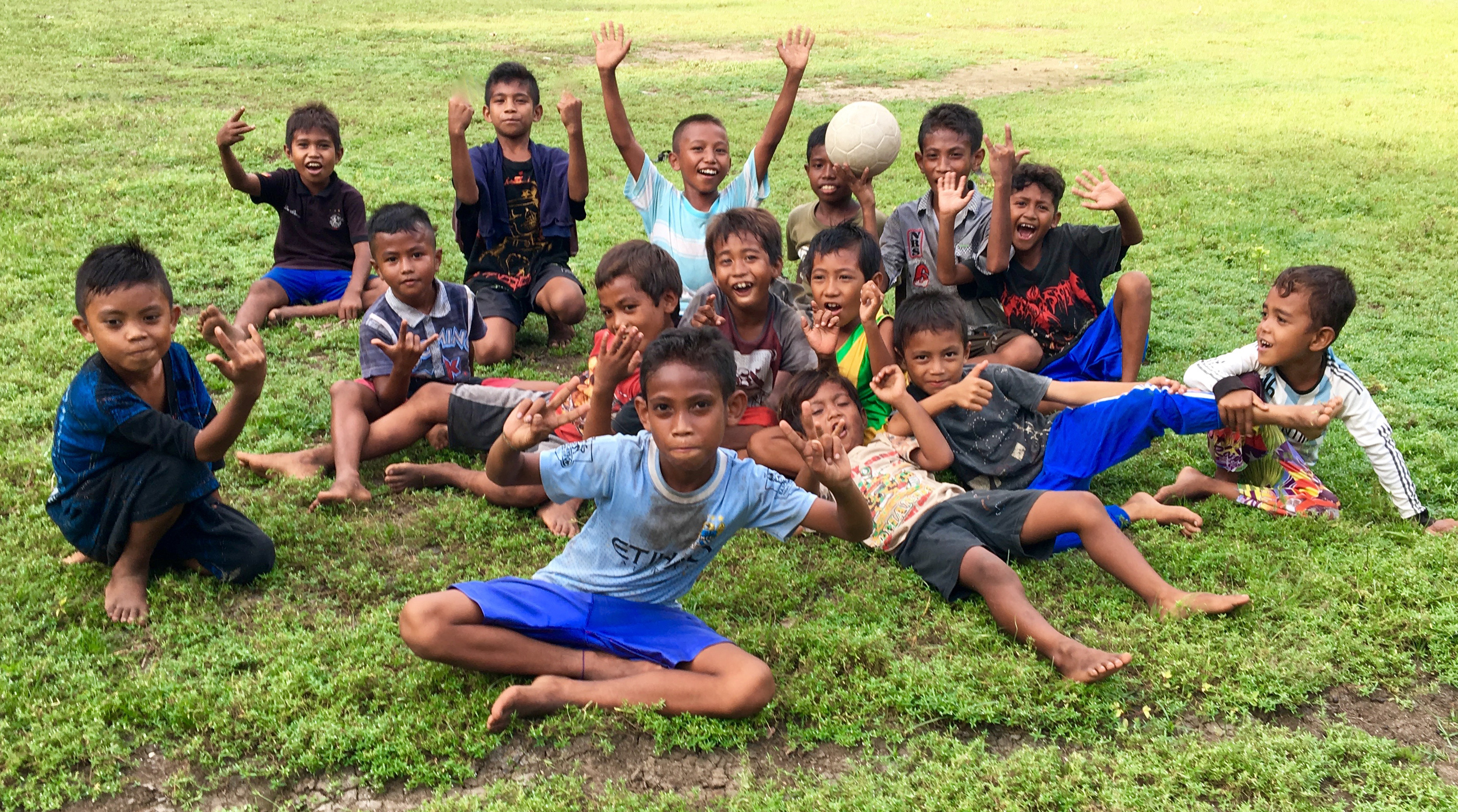 Young Football Players in Pasir Panjang village, West Flores, Indonesia